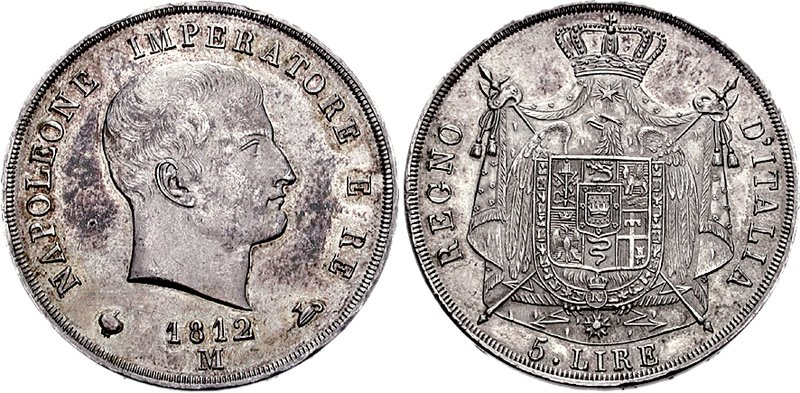 Italia, Regno d'Italia (Napoleonic). Napoleone I. 1805-1814. AR 5 Lire (24.94 g, 6h). Milan mint. Dated 1812. Bare head of Napoleon right. NAPOLEONE IMPERATORE E RE. Crowned and draped coat of arms, eagle behind. REGNO D'ITALIA Pagani 30; Davenport 202; KM 10.4.